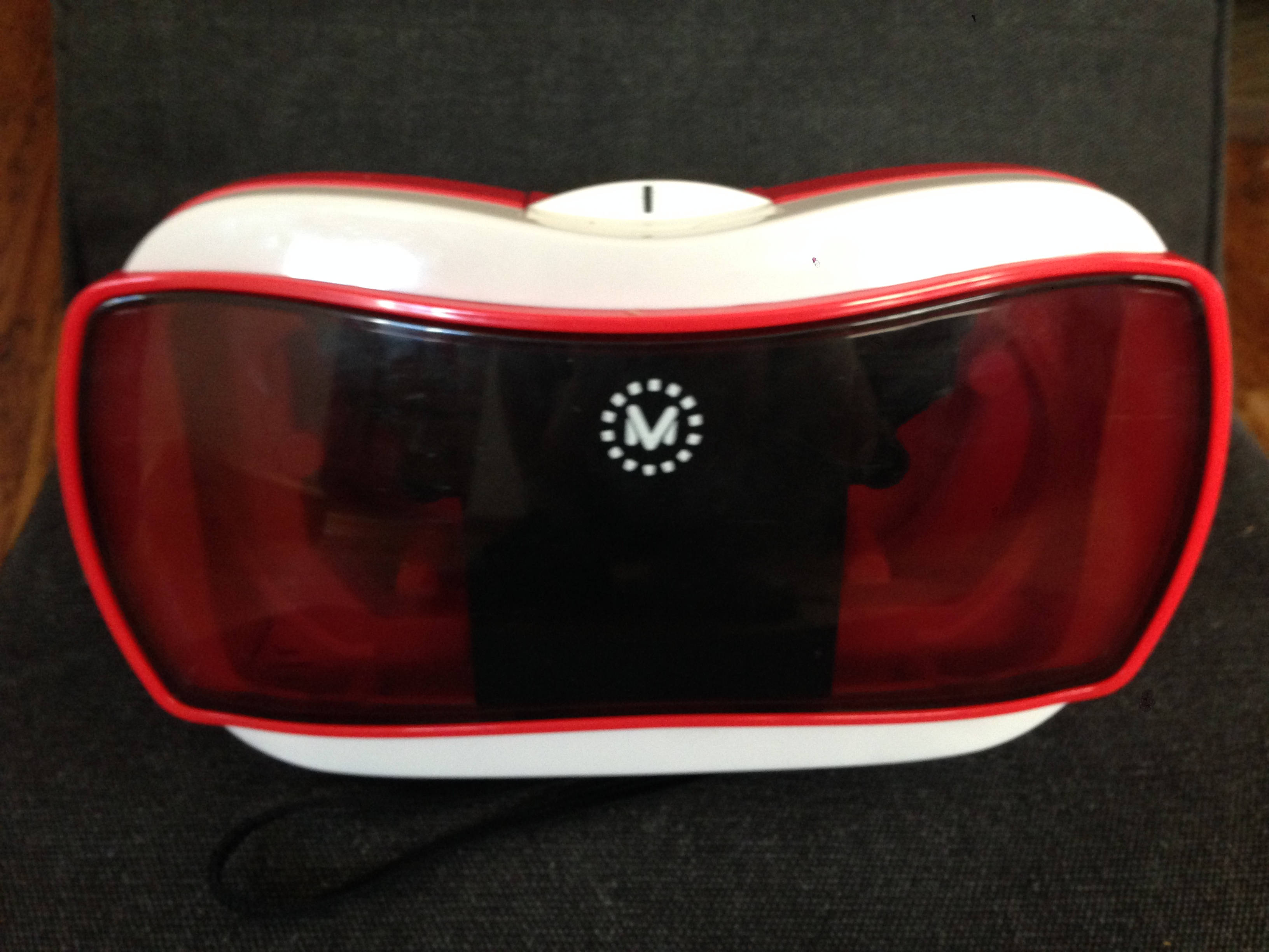 My Viewmaster VR set